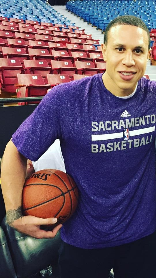 Mike Bibby was an integral part of the Sacramento Kings "Greatest Show on Court."